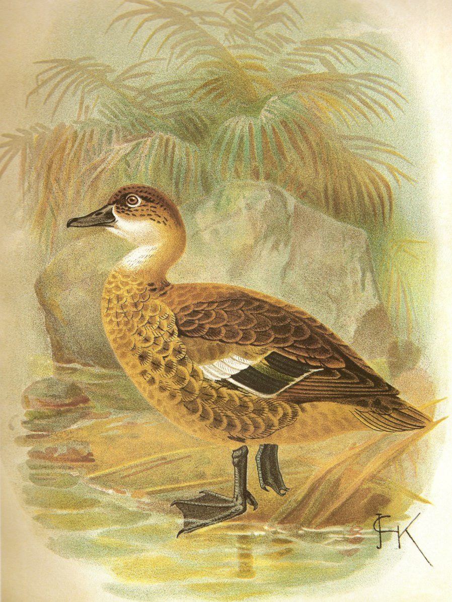 Sunda Teal (Oceanic Teal) Anas gibberifrons (Muller)